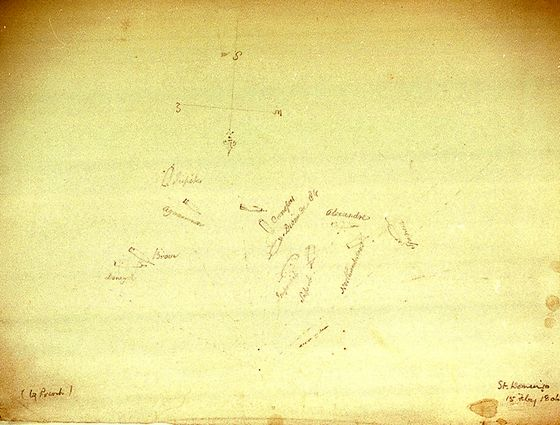 Duckworth's action off San Domingo, sketch plan showing position of ships, Feb 6, 1806; at about 11:00 am